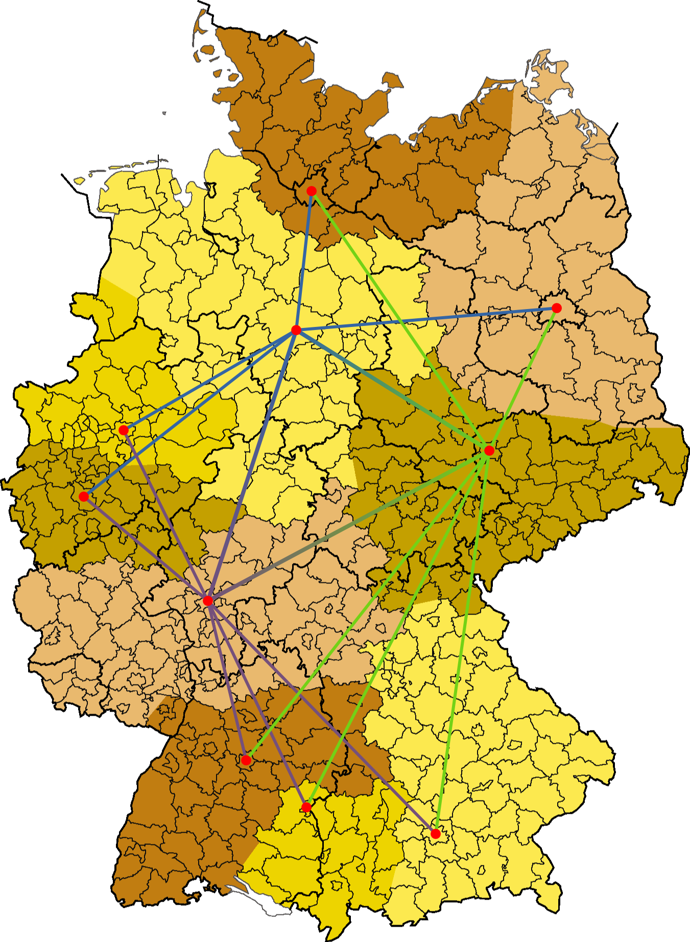 This map schematically shows the German DTAG-Backbone. The regions and locations are only approximately areas